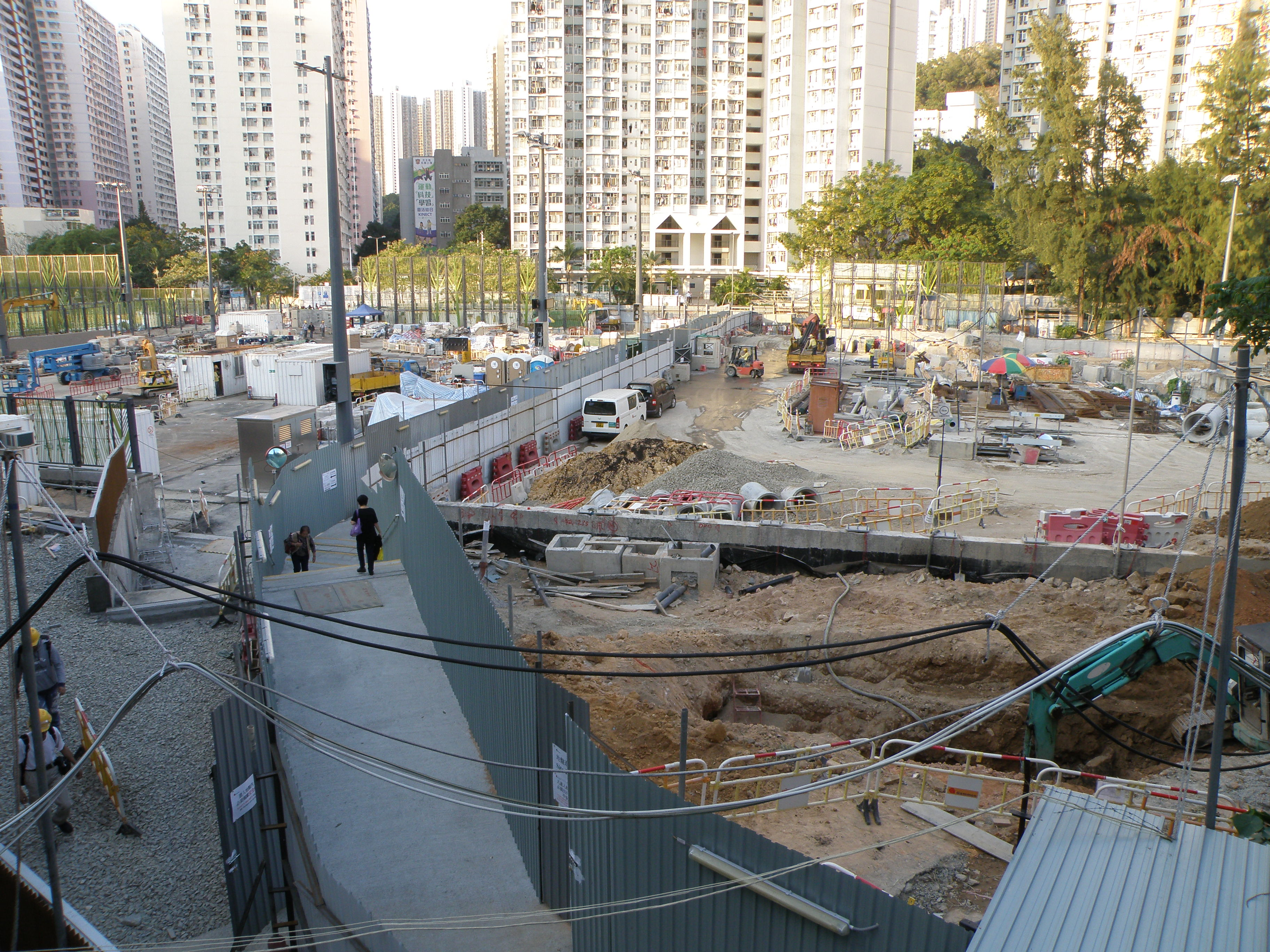 Kwun Tong Recreation Ground in Kwun Tong, Hong Kong.